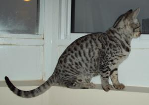 Purebred Ebony Silver Spotted Ocicat Anung Mwka 23:17, 15 December 2006 (UTC)